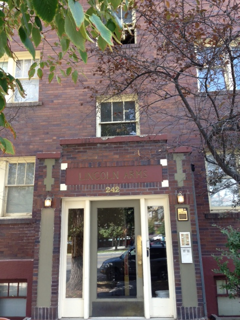 Lincoln Arms Apartments, 242 E. 100 South Central City